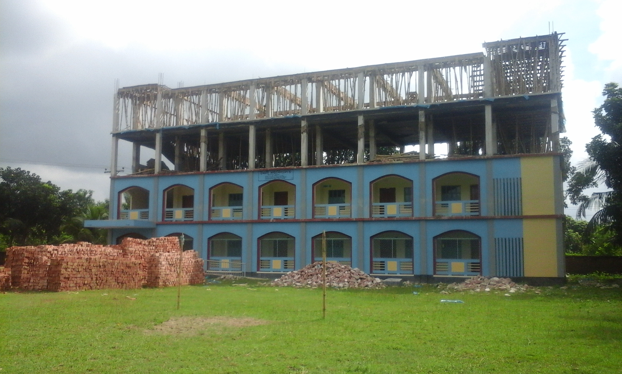 New building of Uthali college.